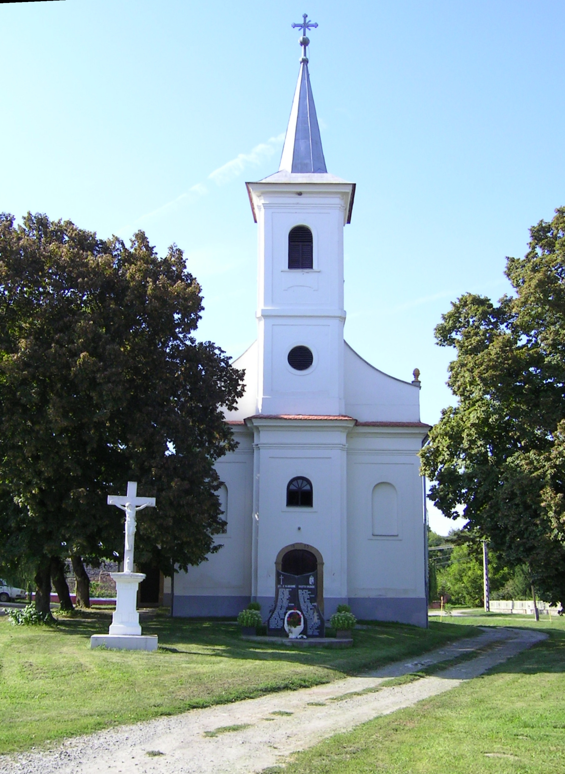 Szent Péter és Pál apostol Roman catholic church in Kisjakabfalva, Hungary